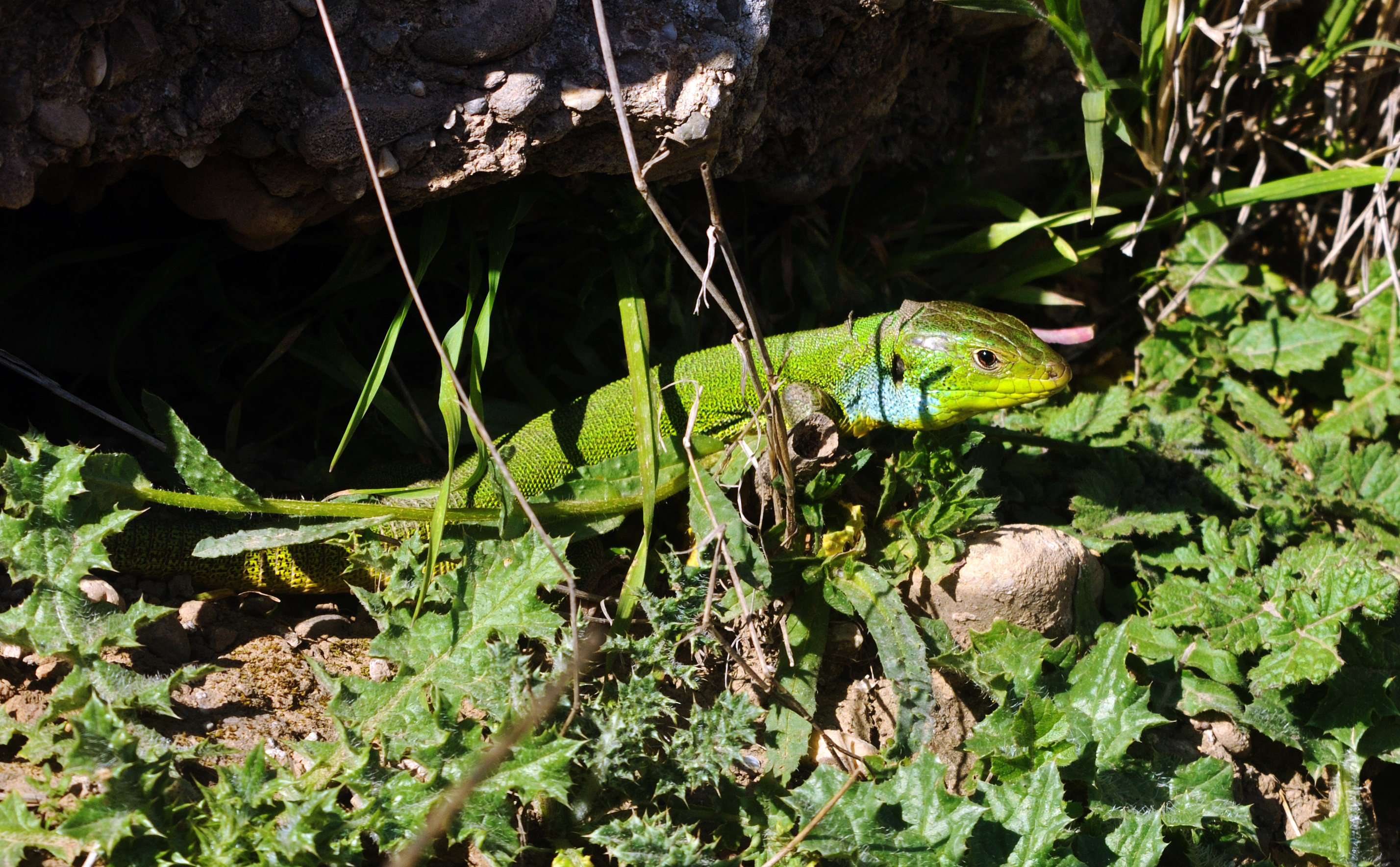 Levant Green Lizard, Medium-sized Green Lizard Amed 2013